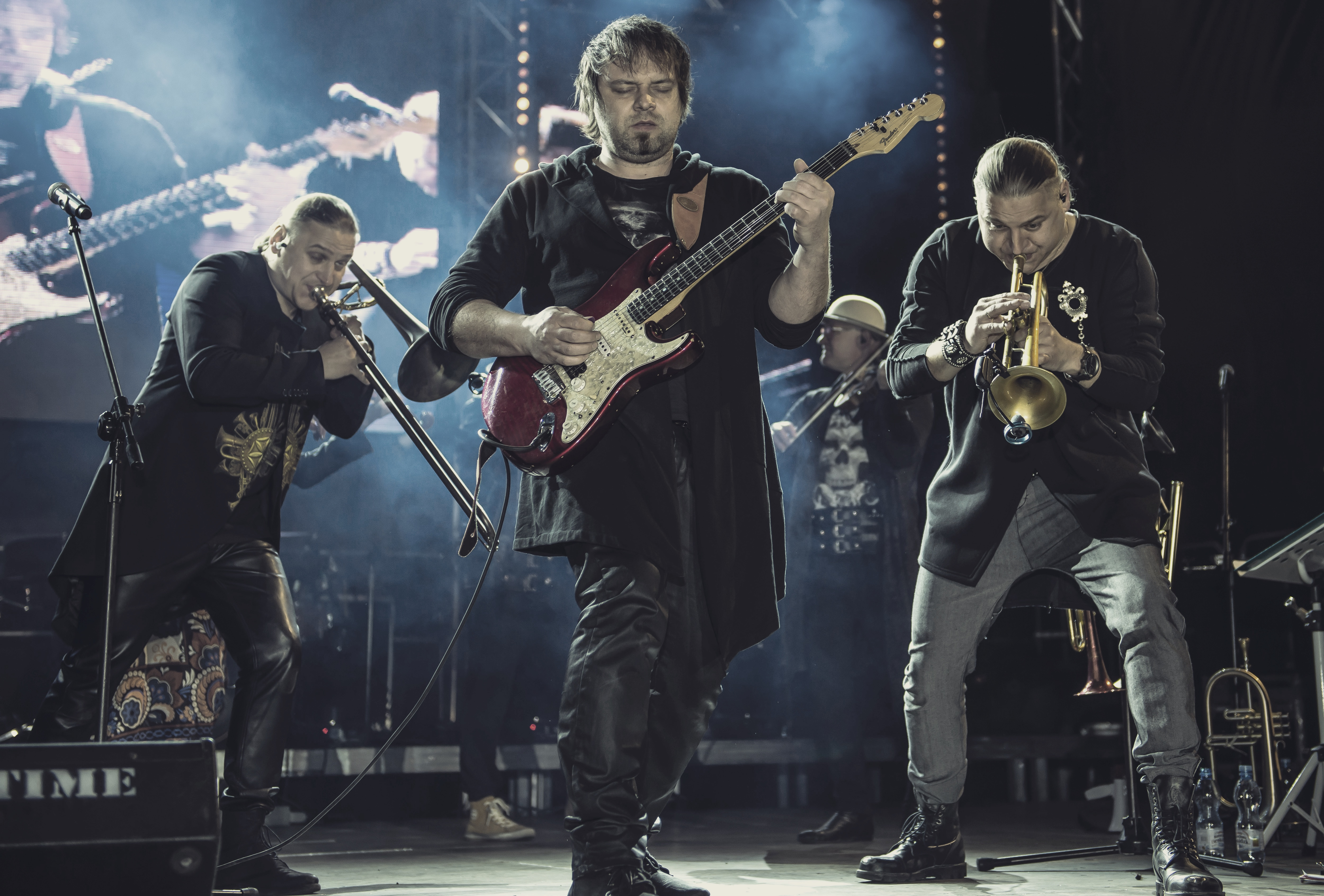 Pawel Golec, Lukasz Pilch and Lukasz Golec (from the left)